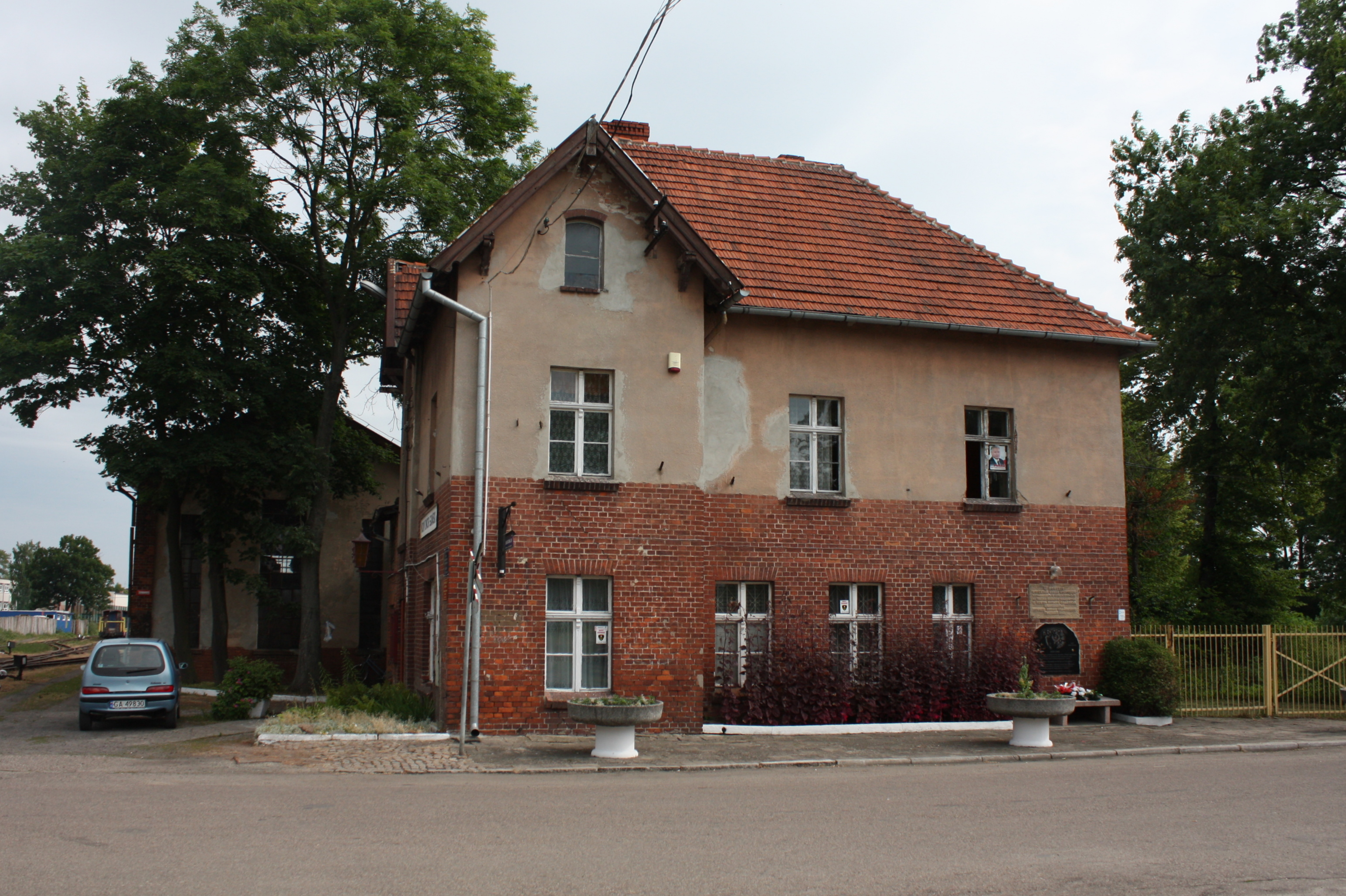 Nowy Dwór Gdański